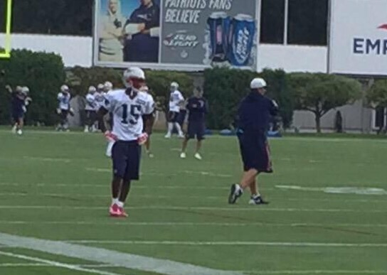 Wayne at Patriots training camp in August 2015